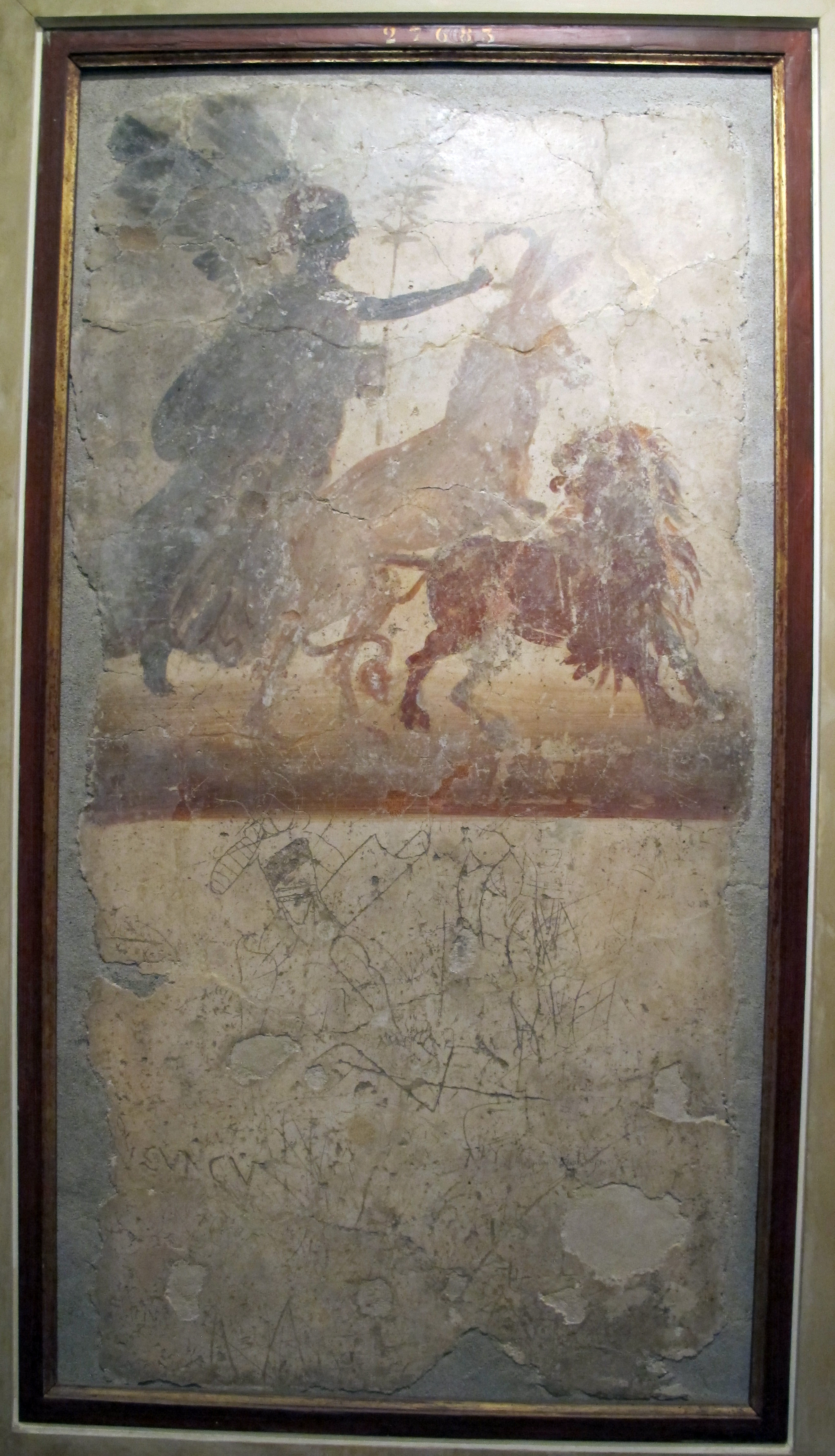 Secret Cabinet in the Museo Archeologico (Naples). From Pompeii, Lupanare (VII.6.34-35)